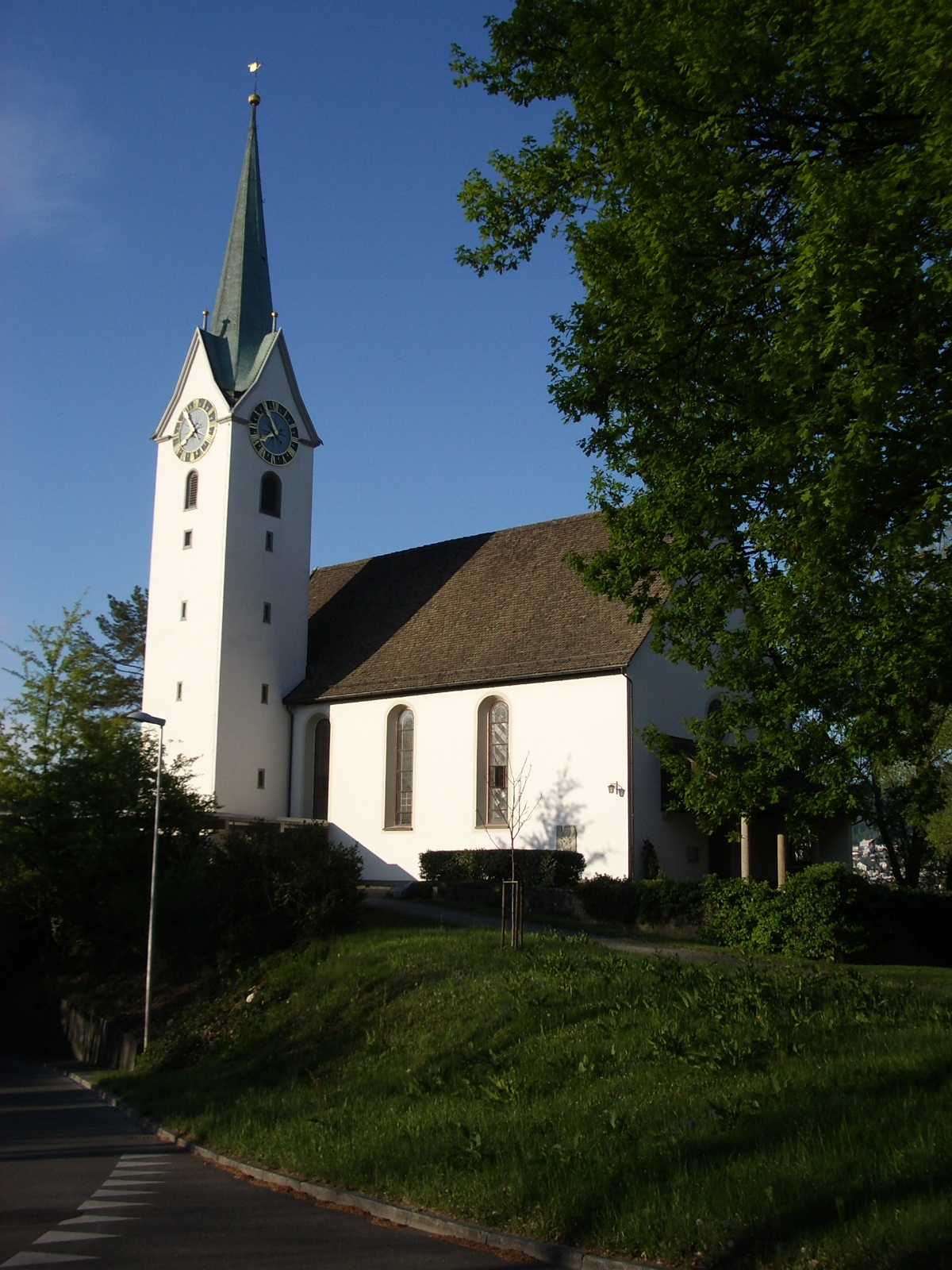 Herrliberg ZH, Switzerland